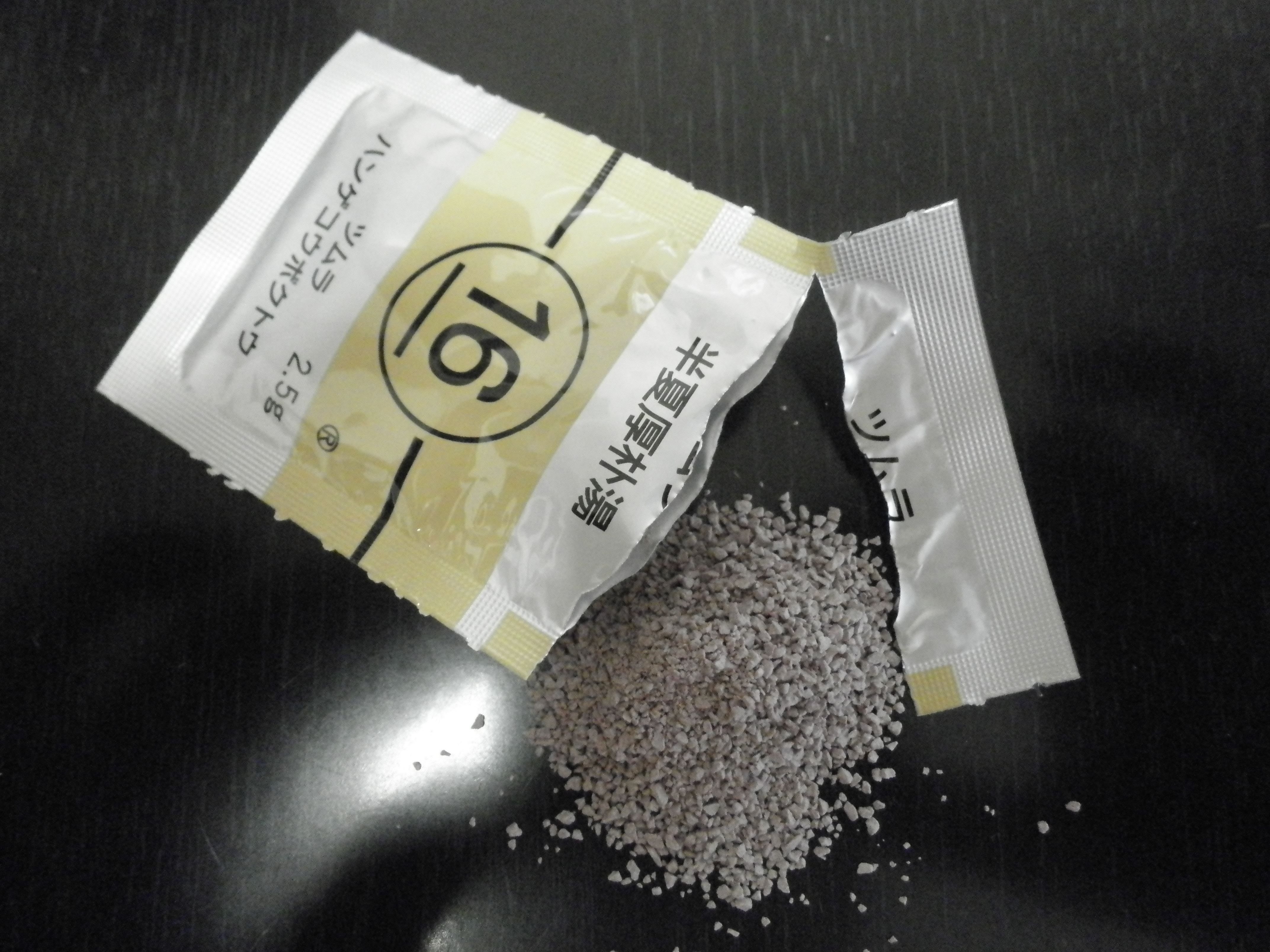 Chinese medicine medicin whose name is hangekoubokutou